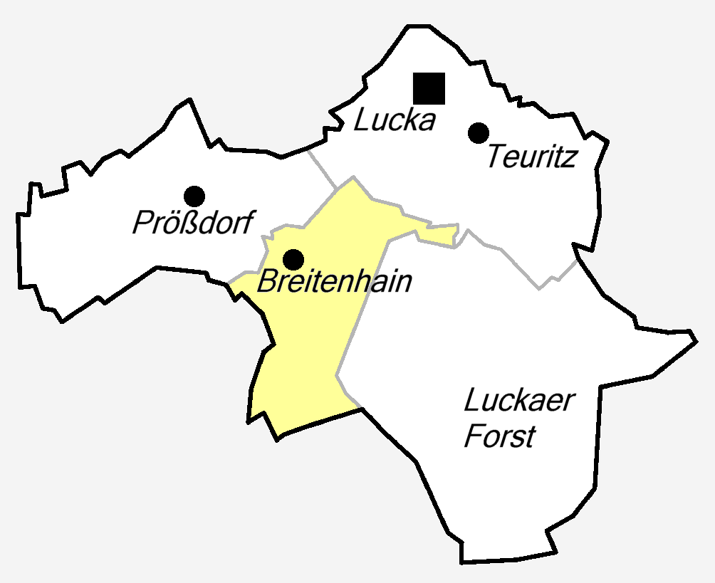 District-Maps of Breitenhain in Lucka.